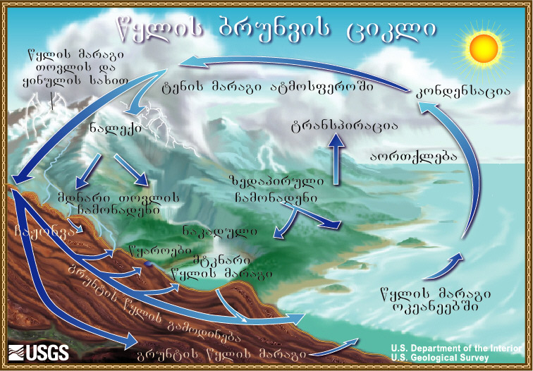 Water-Cycle Diagram (Georgian)